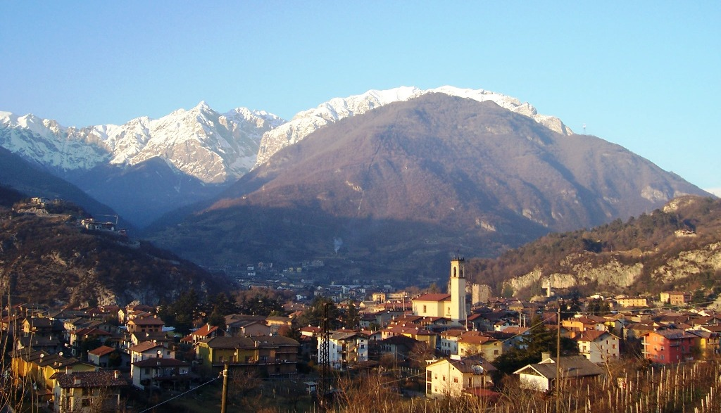 Cividate Camuno, Val Camonica, Italia